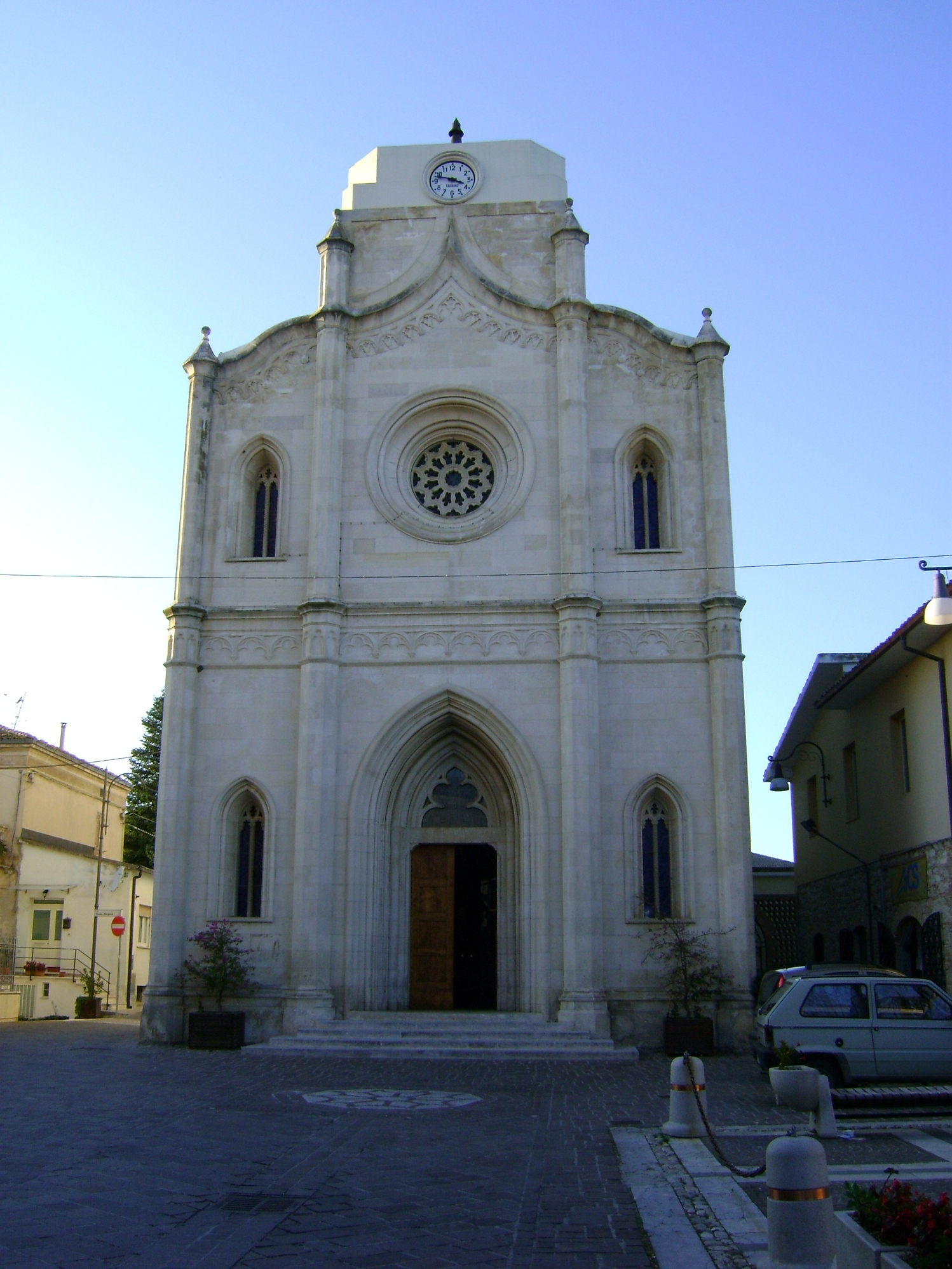 Facade of the church of Most Holy Mary of Assumption, Sant'Eusanio del Sangro, province of Chieti, Abruzzo